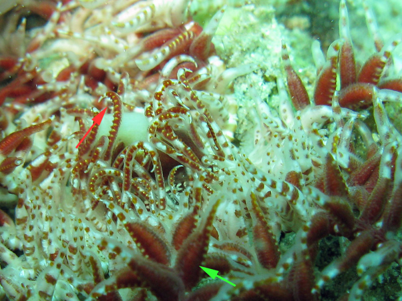 Oxycomanthus exilis. Central upper surface showing combed oral pinnules (red arrow) and swollen genital pinnules (green arrow).